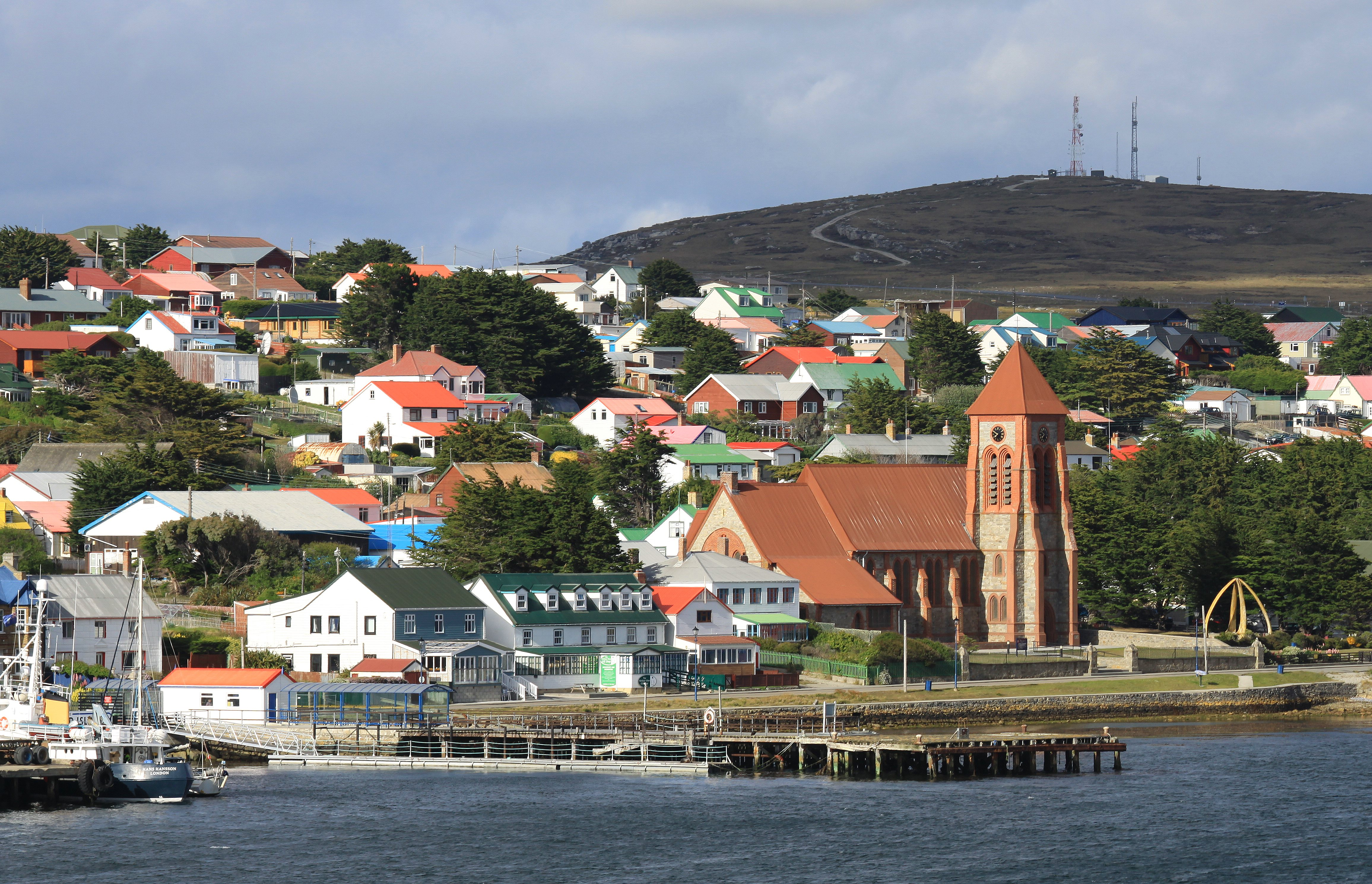 Stanley, Falkland Islands